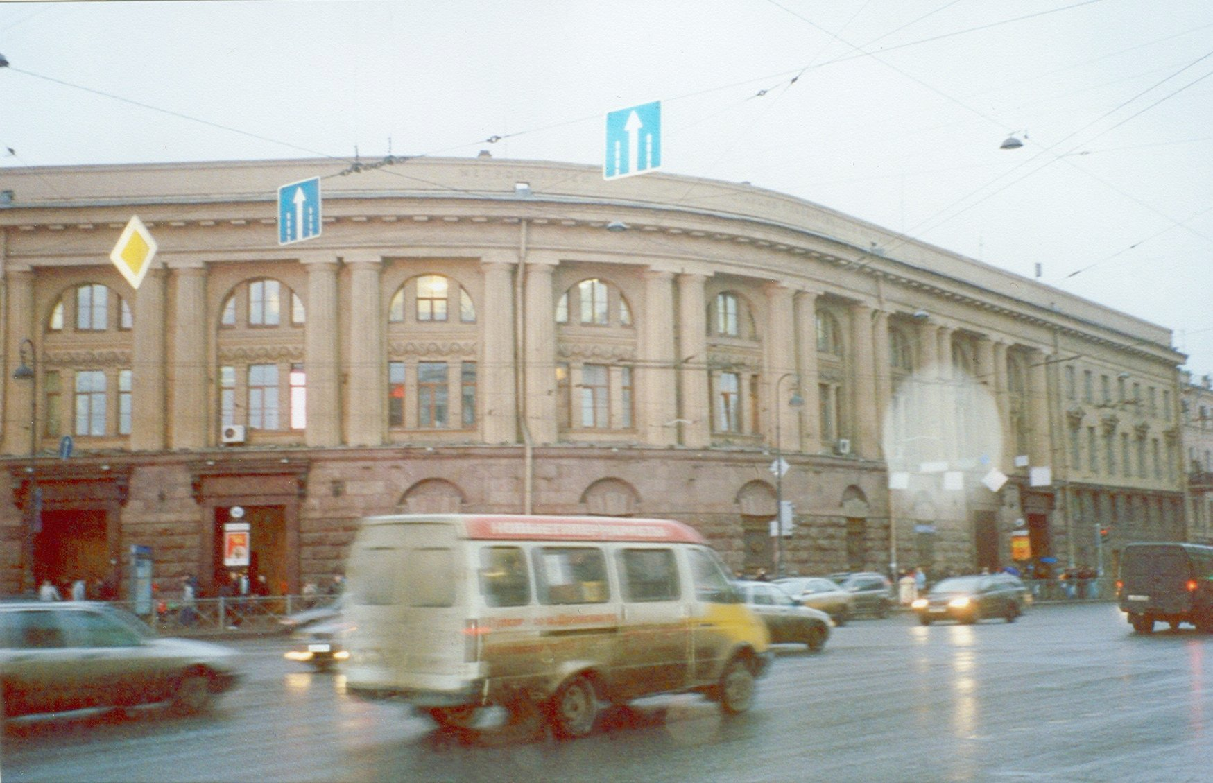 Station.